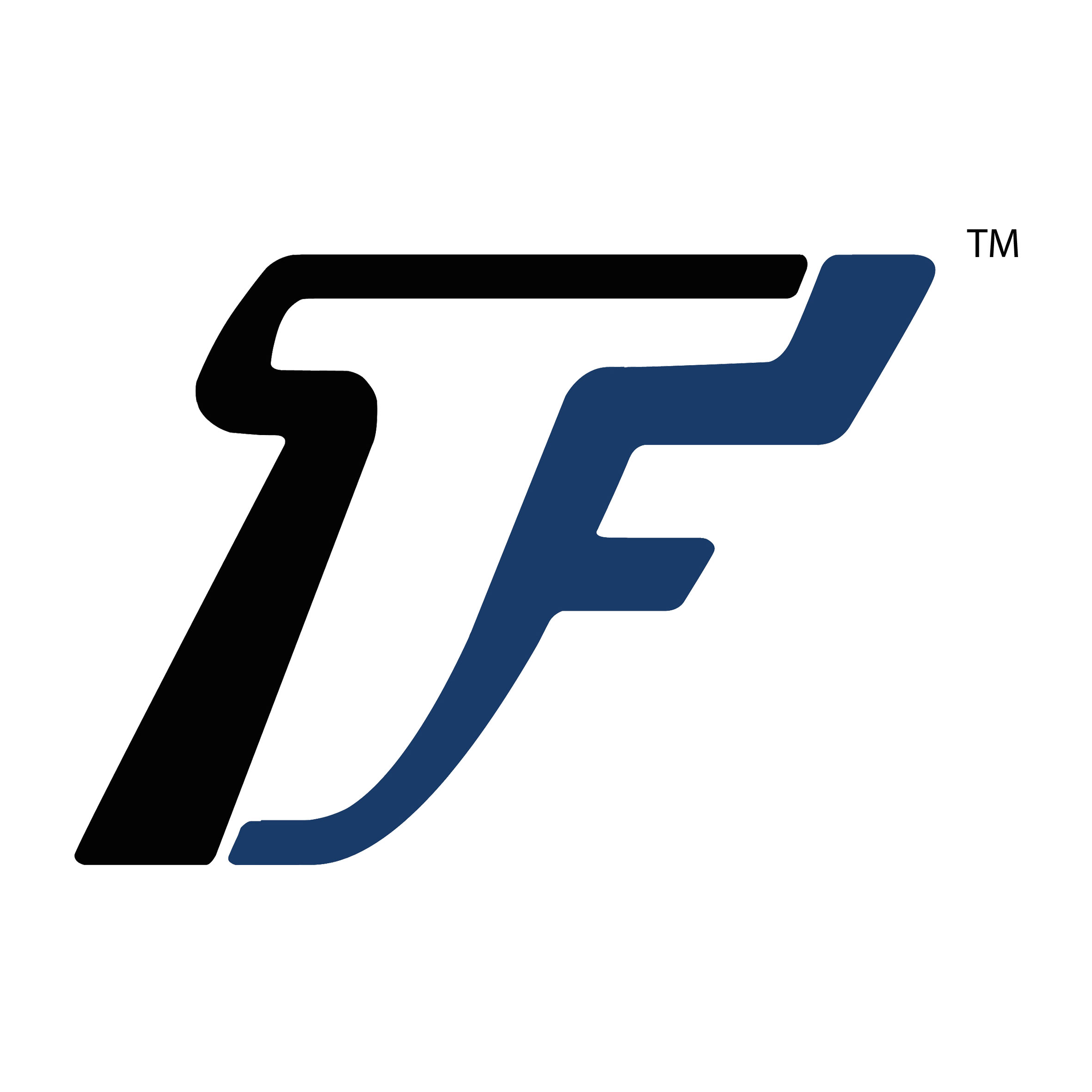 The new logo of Techfest IIT Bombay effective from 2012